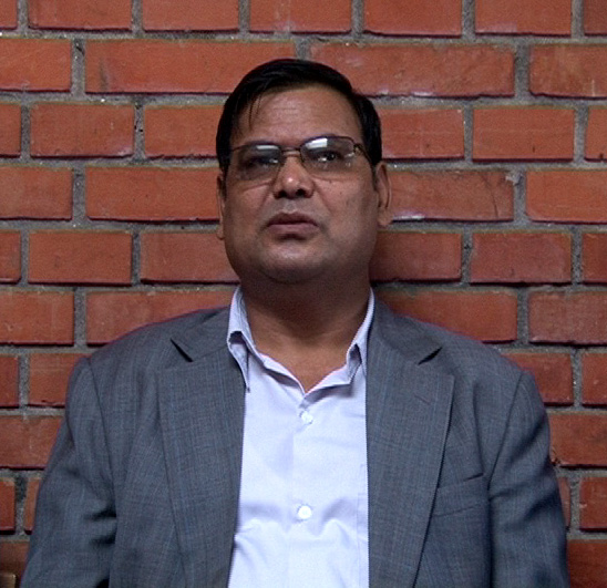 Nepali leader